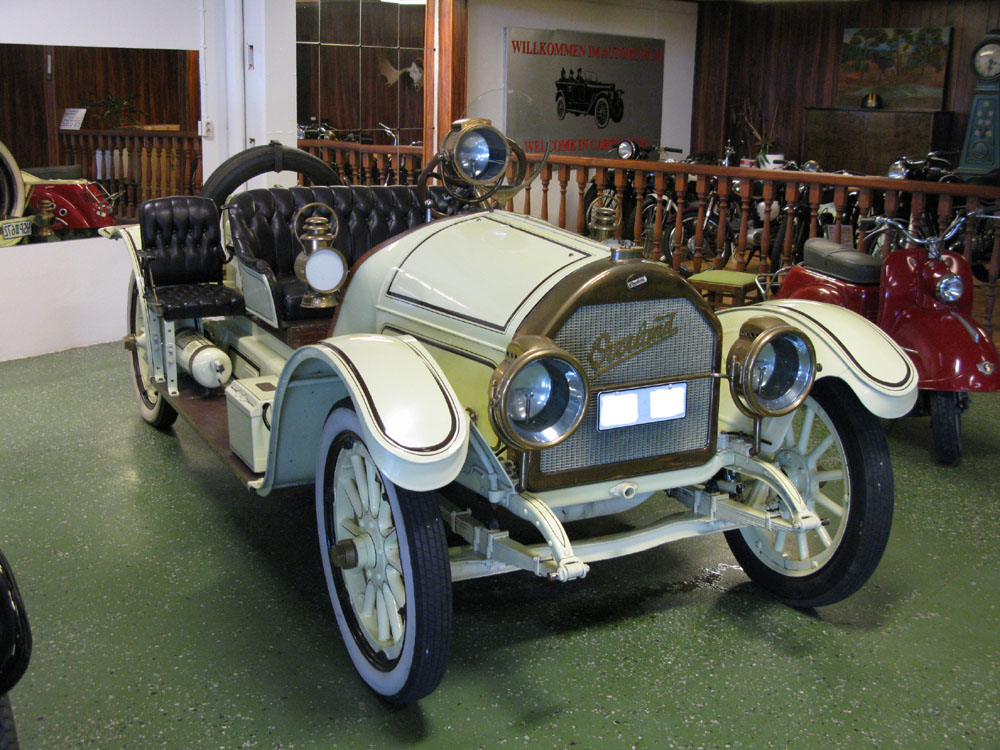 1917 Overland Speedster.Location: Laganland Bilmuseum, Sweden